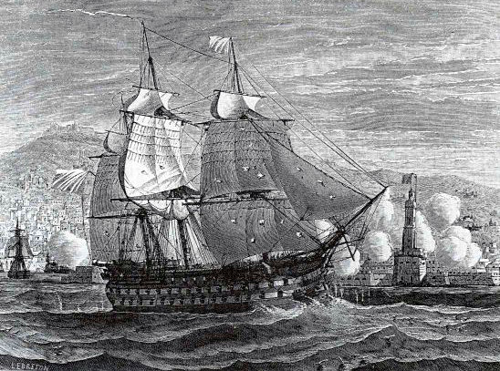 French ship Provence of 80 guns